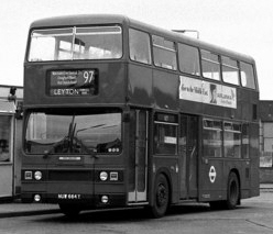 London Transport bus T664 (reg. NUW 664Y), a 1982 Leyland Titan (B15), pictured at the terminus of London Buses route 97 at Chingford railway station, about to start a new journey to Leyton Downsell Road. At this time, route 97 required 10 Titans on a weekday, operating out of Walthamstow garage (code WW). The 714th production Titan, it's from the later batch built at Leyland's expanded factory in the Lillyhall Industrial Estate in Workington (earlier ones were built by British Leyland subsidiary Park Royal Vehicles in Park Royal, London). As with the vast majority of production, it was delivered new to London Transport as part of the dual-door T-class, allocated fleet number T664. It's looking relatively new here as it's just re-entered service following an overhaul at Aldenham Works (even though it had only entered service in December 1982). As part of the privatisation process it passed into the fleet of Stagecoach East London in 1994. In May 1998 it was transferred within Stagecoach to the group's Welsh operations Stagecoach Red & White, who converted it to a single-door bus and renumbered it 813. It didn't stay long, being transferred again to Cleveland based Stagecoach Transit, who renumbered it 278. By 2004 it had been sold to dealers & breakers PVS of Carlton, and appears to have been scrapped.